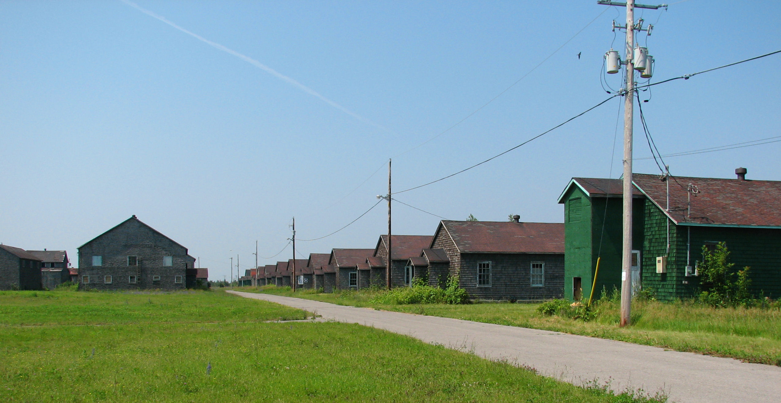 Barracks at the Picton Airport, formerly Canadian Forces Base Picton and No. 31 Bombing & Gunnery School (1941)